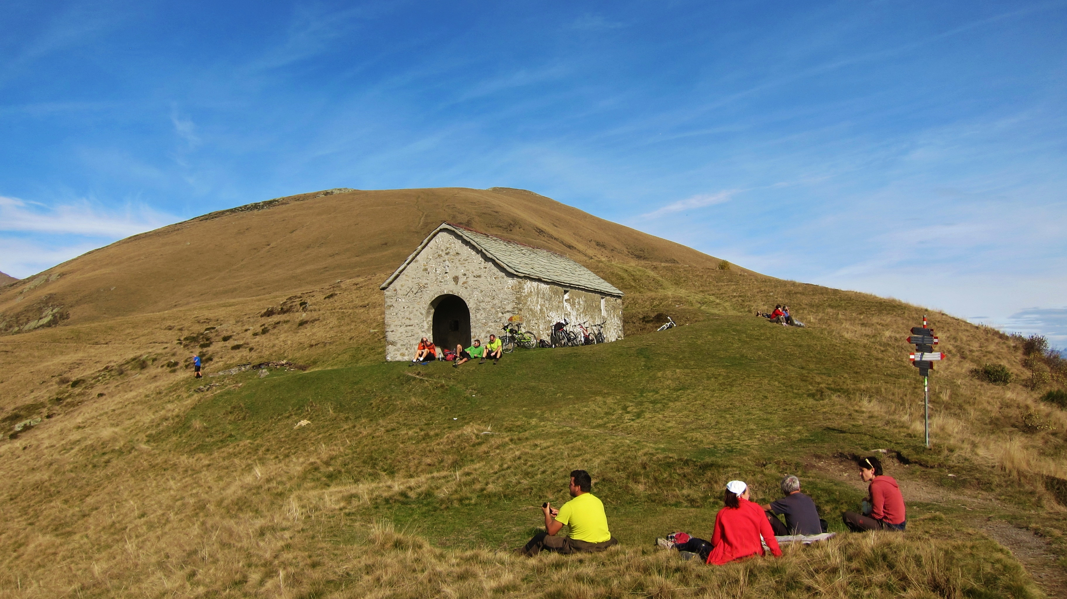 Sant'Amate chapel 1623 m.a.s.l. ,. Picture taken in Plesio municipality (Como) on the 25th of October in 2015.